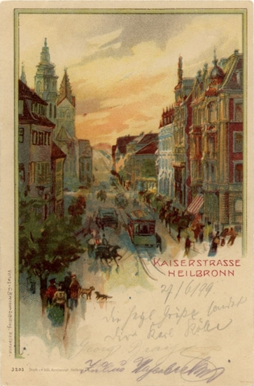 Heilbronn